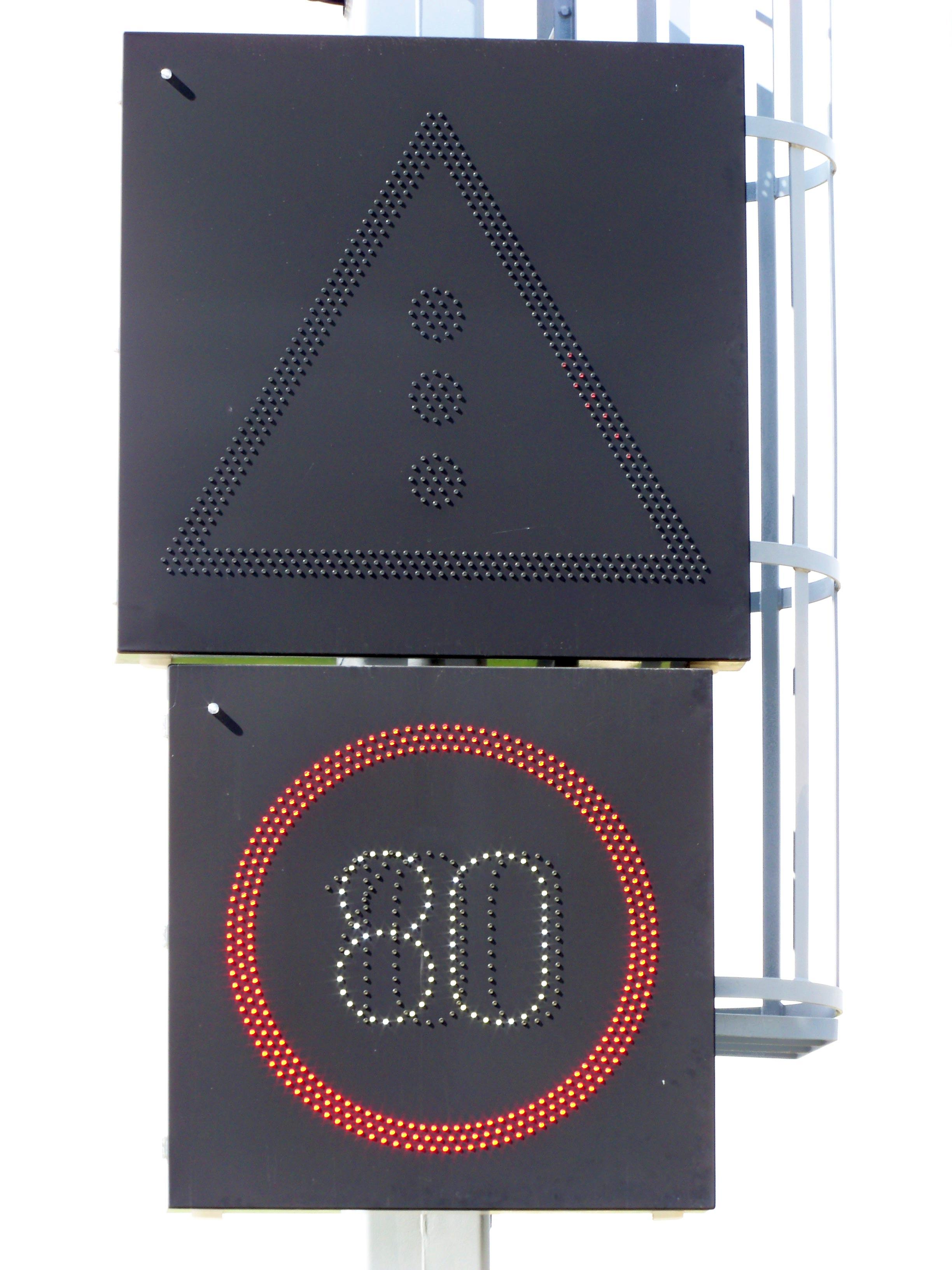 Prague, the Czech Republic. Open Doors Day of the new section of Prague Beltway. Variable LED road signs.